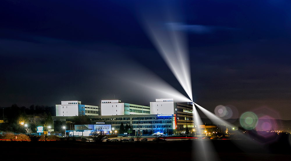 Industrial park Opticoelectron at night time